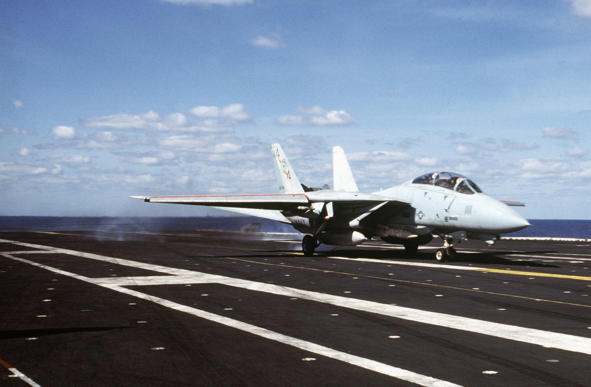 A U.S. Navy Grumman F-14A-105-GR Tomcat (BuNo 160917) from Fighter Squadron VF-74 Be-Devilers landing aboard the aircraft carrier USS Saratoga (CV-60) in 1985. VF-74 was assigned to Carrier Air Wing 17 (CVW-17) aboard the Saratoga for a deployment to the Mediterranean Sea from 26 August 1985 to 16 April 1986.